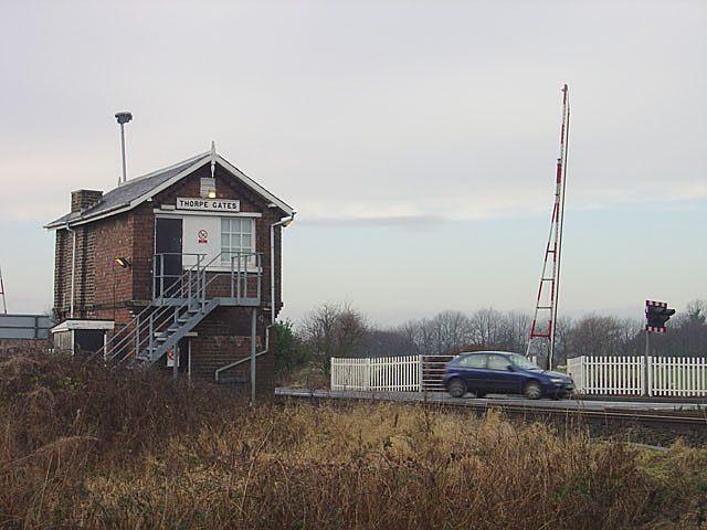 Thorpe Gates Level crossing and signal box on the Leeds to Hull main line, looking west. This end of the box retains the traditional style of name board.